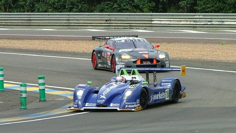 Rollcentre Racing's Pescarolo 01-Judd and Team Modena's Aston Martin DBR9 at the 2007 24 Hours of Le Mans